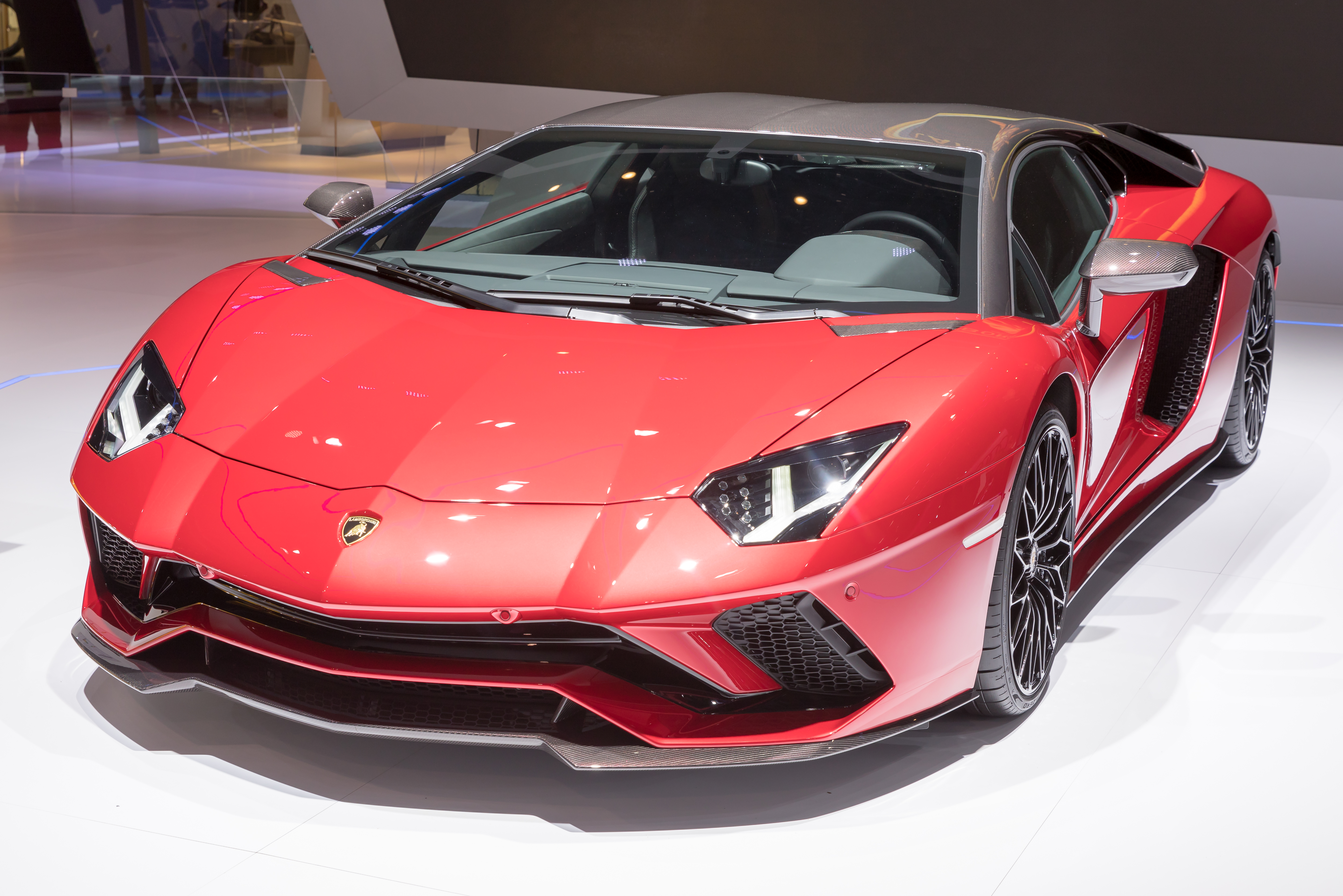 Lamborghini Aventador J, Geneva International Motor Show 2018